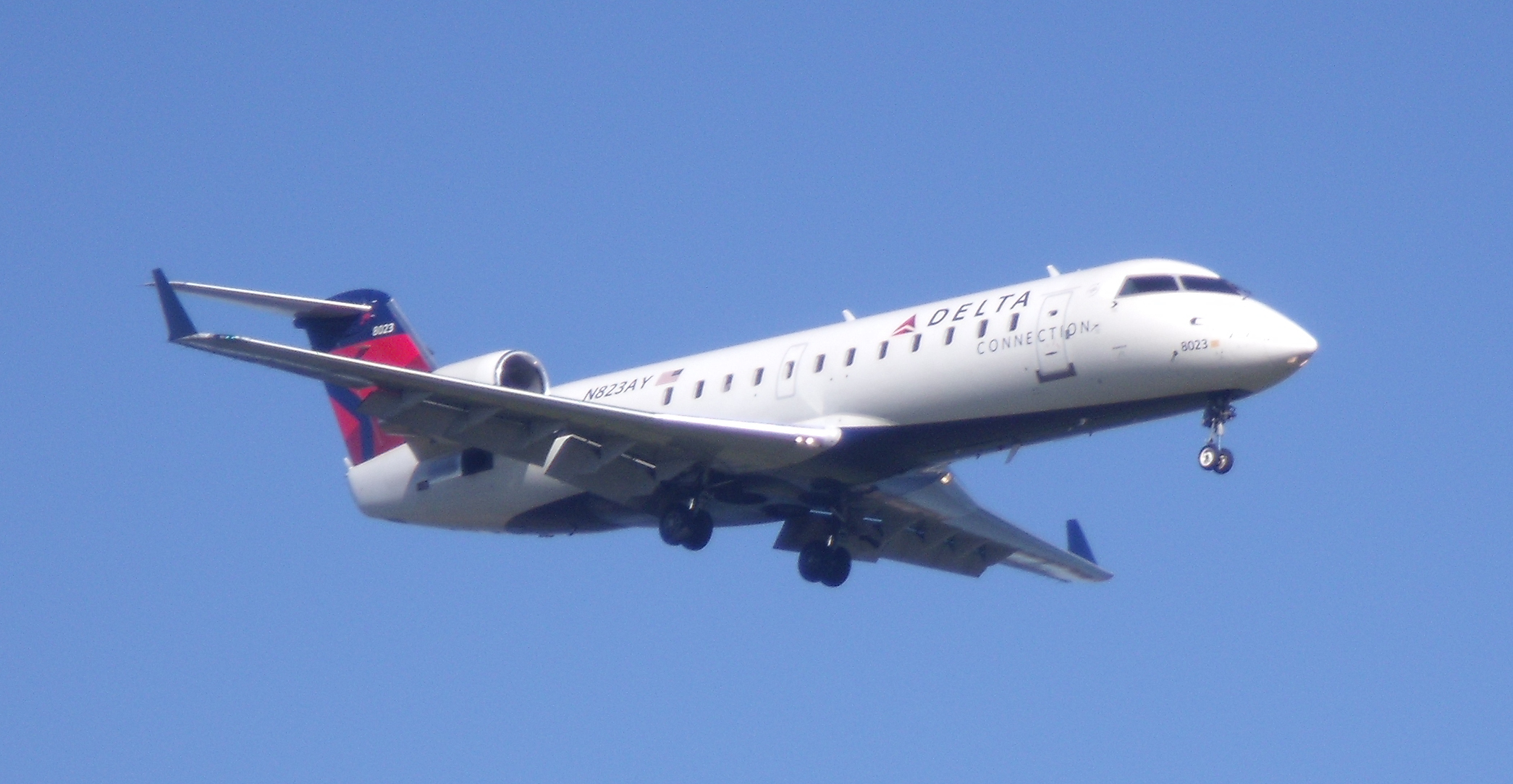 Landing at KDCA